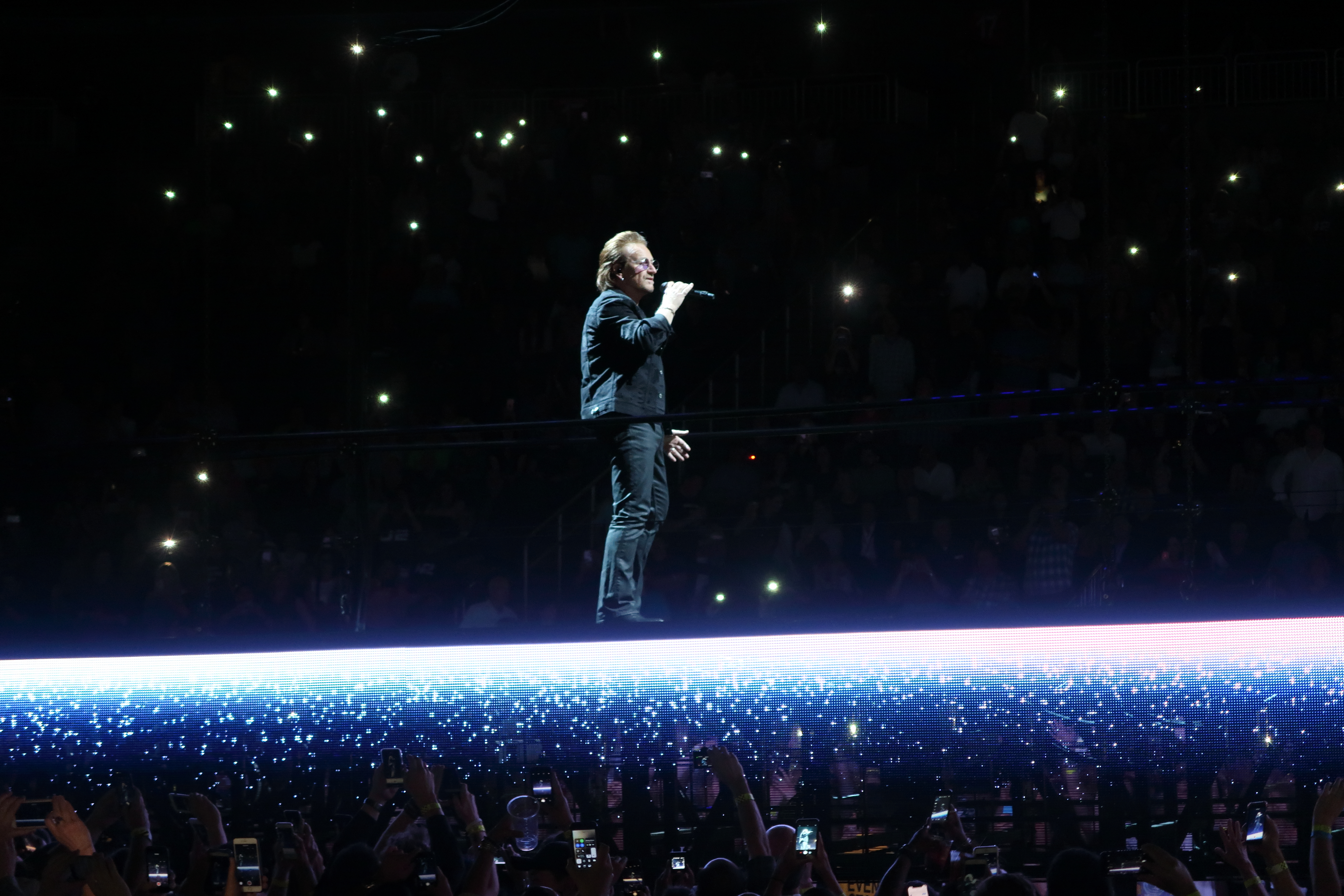 U2 - Las Vegas 5-2018